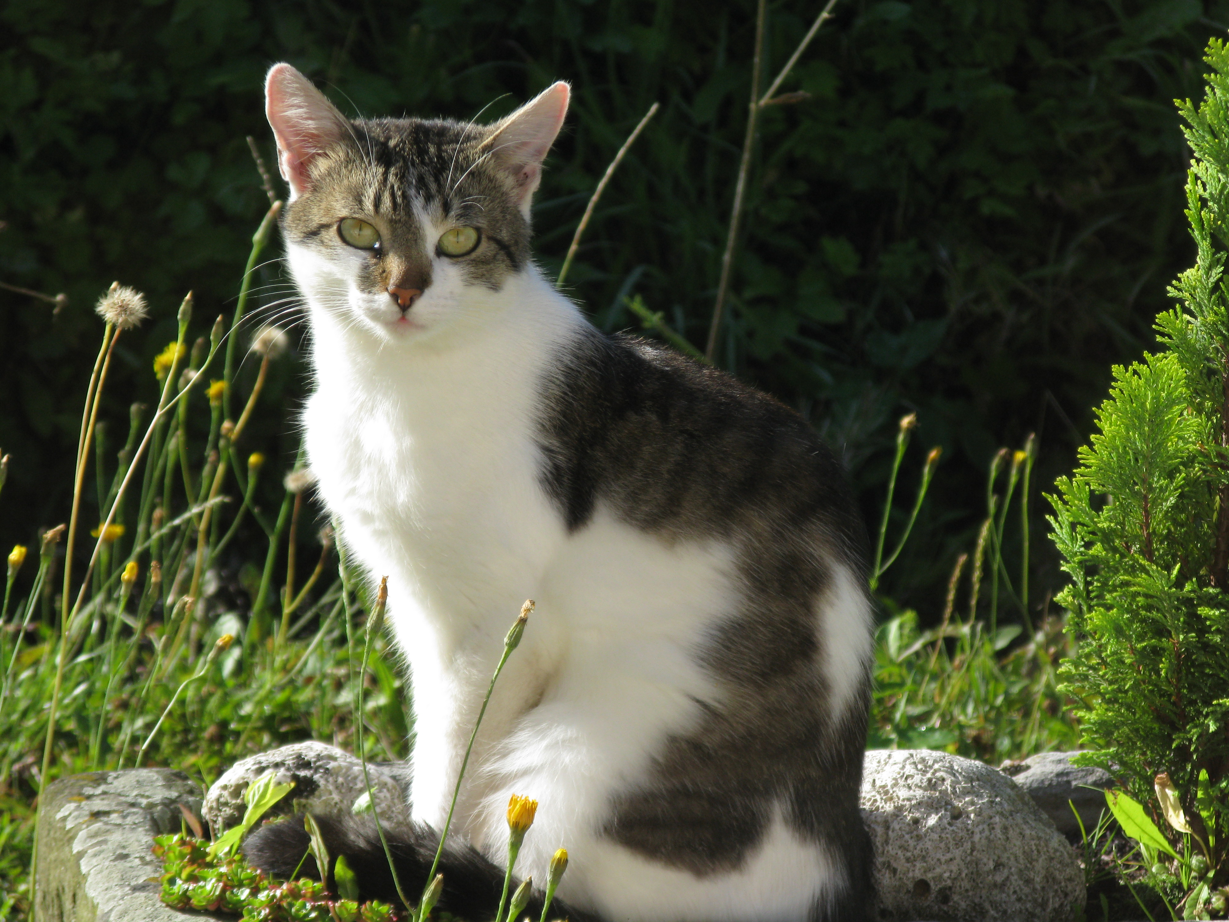 Felis silvestris f. catus at morning sunshine